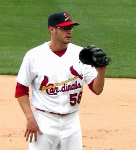 St. Louis Cardinals pitcher Joe Kelly. He's seen here on the pitching mound waiting for the ball to be returned by the catcher or umpire in a 2012 game at Busch Stadium. This image has been slightly modified from my original work. It has been cropped to remove excess non-relevant space.